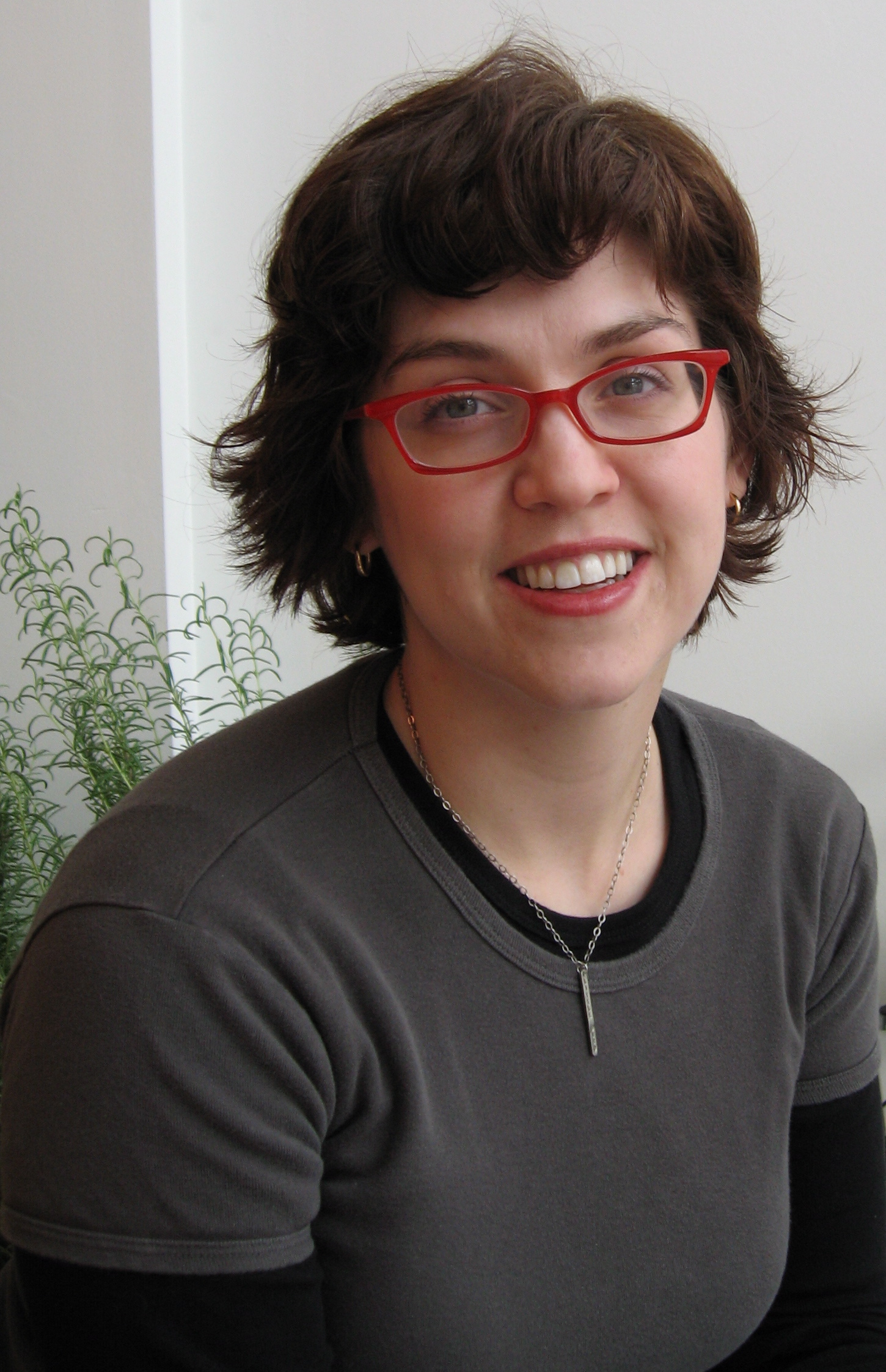 portrait of Erin McKean